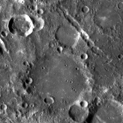 LROC . Popov at center of image, Catena Dziewulski at uper right .